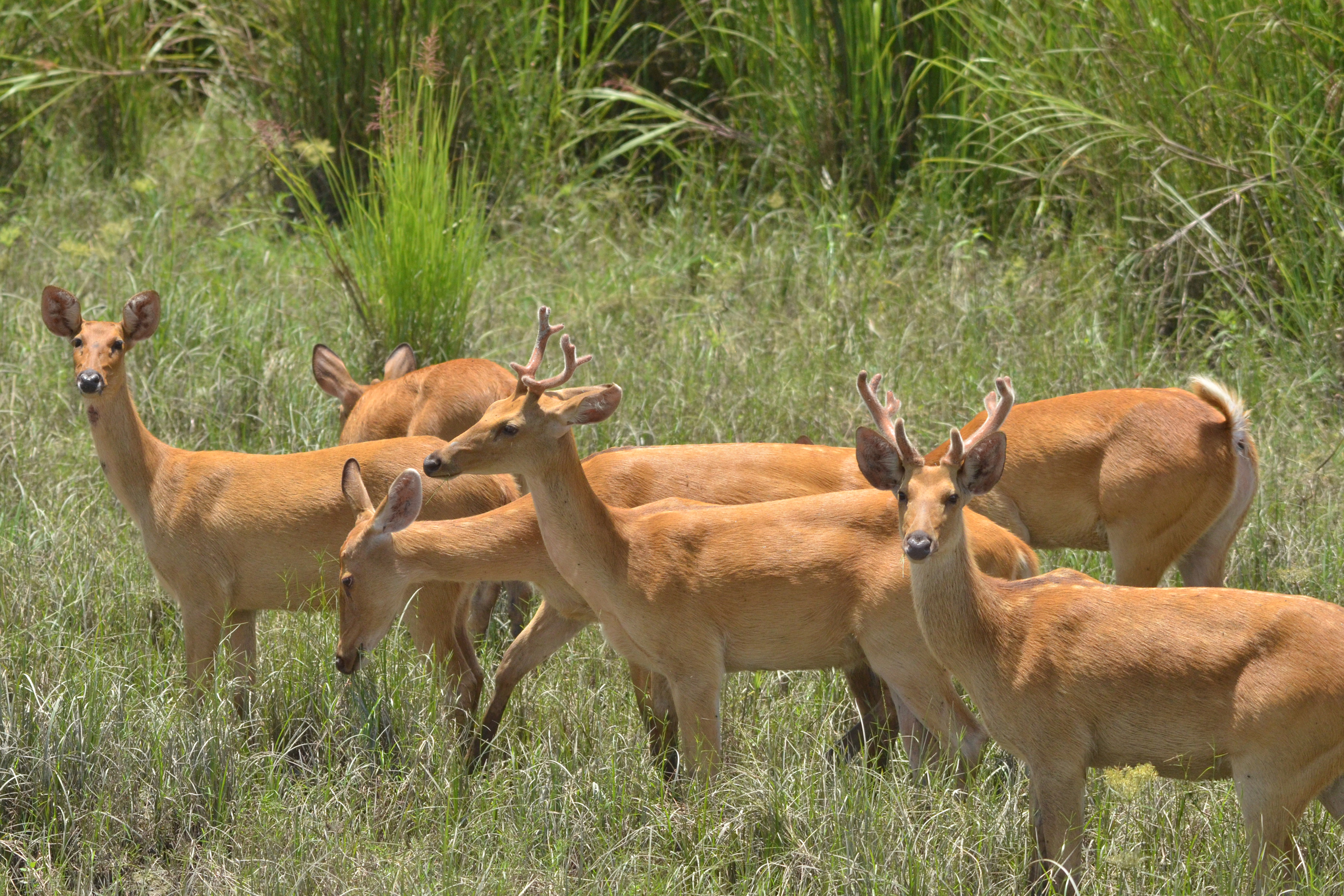 A herd of Swamp Deer in Kaziranga National Park